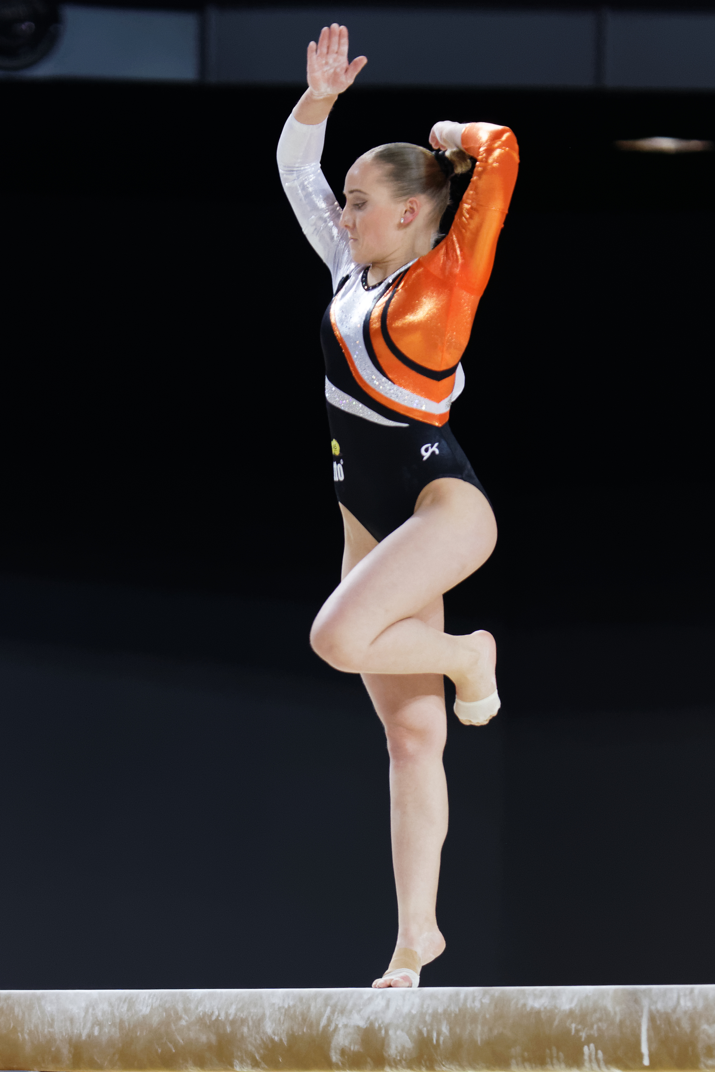 2015 European Artistic Gymnastics Championships. Bamance beam.